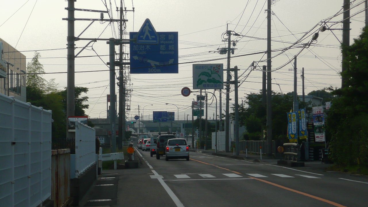 National Route 220 Ends (Kokubu-Shikine, Kirishima City, Kagoshima Prefecture, Japan)